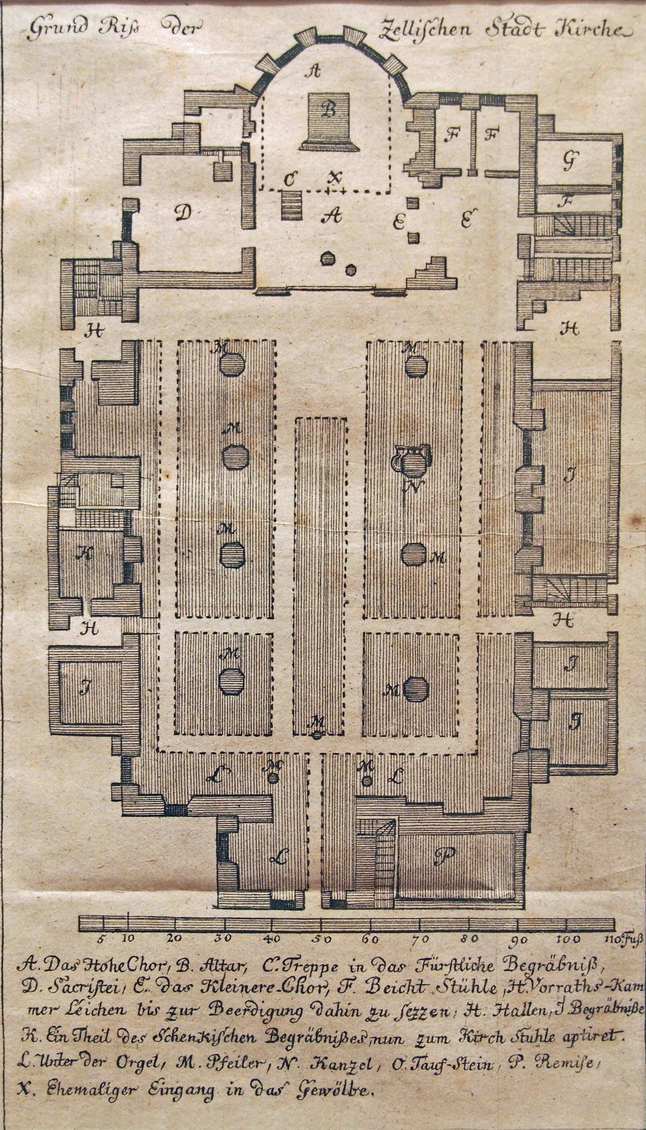 Ground plan of the Celle city church